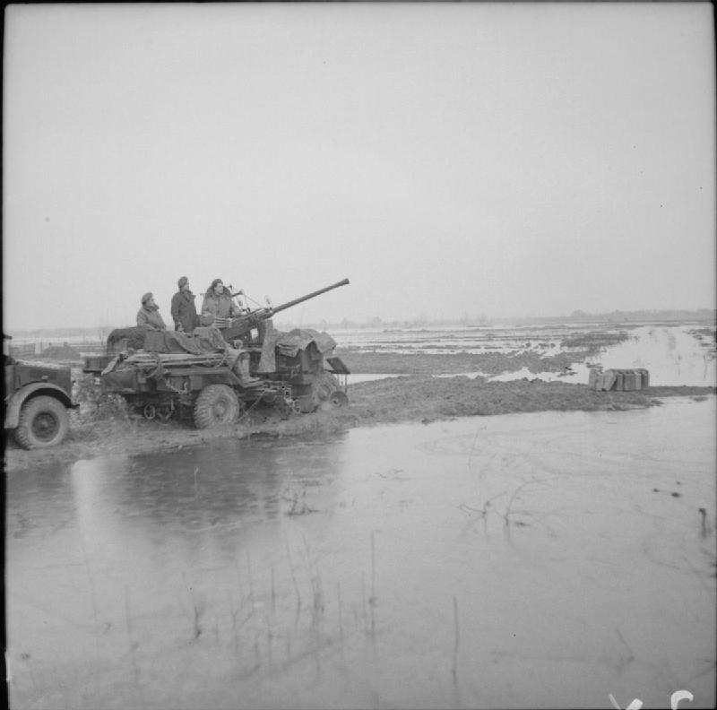 The British Army in North-west Europe 1944-45 Mobile Bofors gun of 89th Light Anti-Aircraft Regiment at Elst in Holland, 15 December 1944.